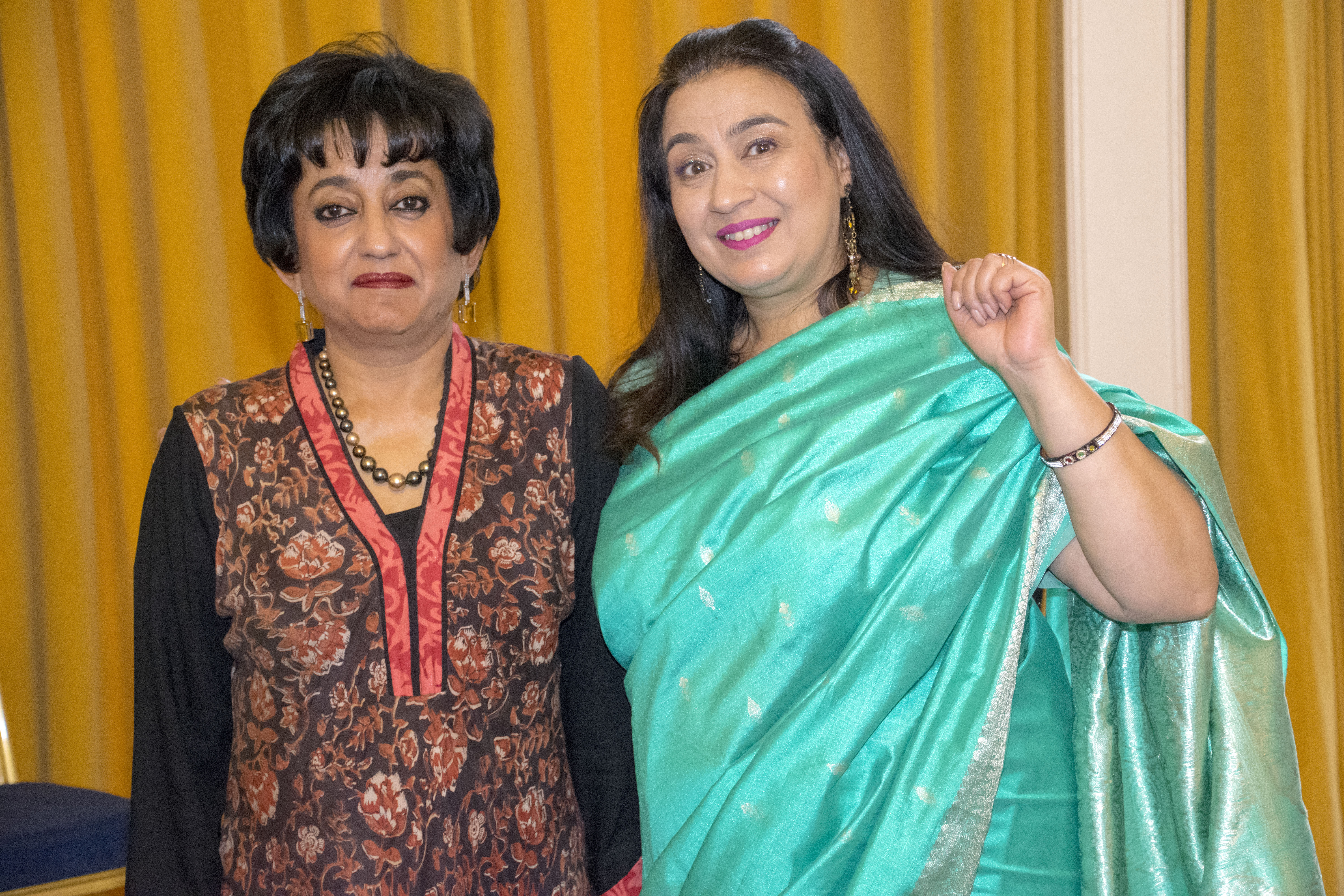 A Woman of Substance. Gulrukh Khan interview with (on left) Her Excellency Mrs Girija Sinha The wife of the Indian High Commissioner to London Mr Y. K. Sinha at The Universal Peace Federation at 43 Lancaster Gate London